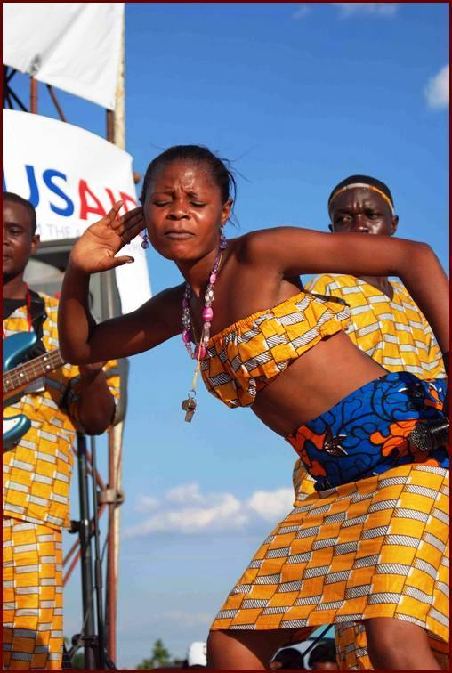 A musician performs at a concert in Livingstone, Zambia, in January 2007. The concert was sponsored by PEPFAR and highlighted voluntary HIV/AIDS counseling and testing. [State Department photo/ Public Domain]